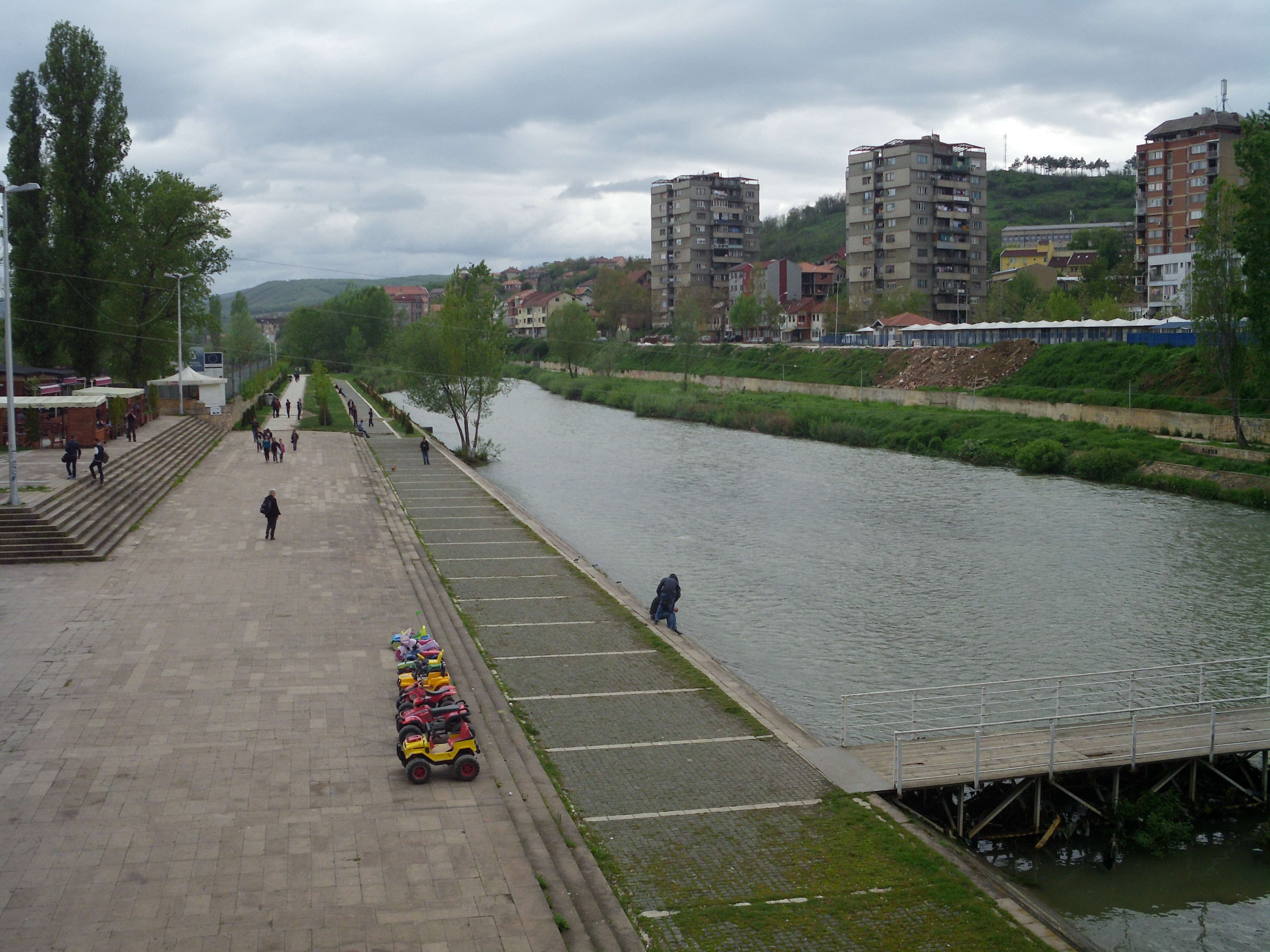 The Ibar river passing through Kosovska Mitrovica. The Albanian part is at the left, the Serbian one at the right.